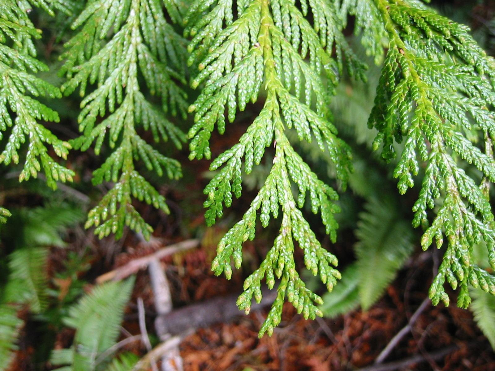 Western Redcedar foliage. The tree is in a parking lot and is about 20 m high.